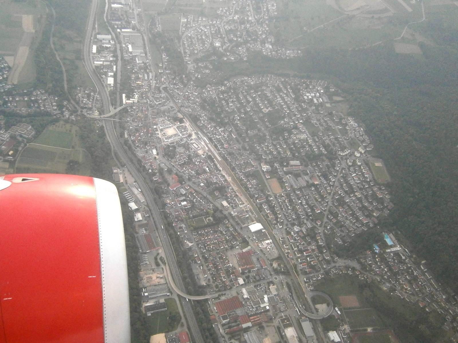 Ebersbach (Fils), Baden-Wurttemberg, southern Germany, as seen from an airliner in it's descent to Stuttgart Airport (STR)